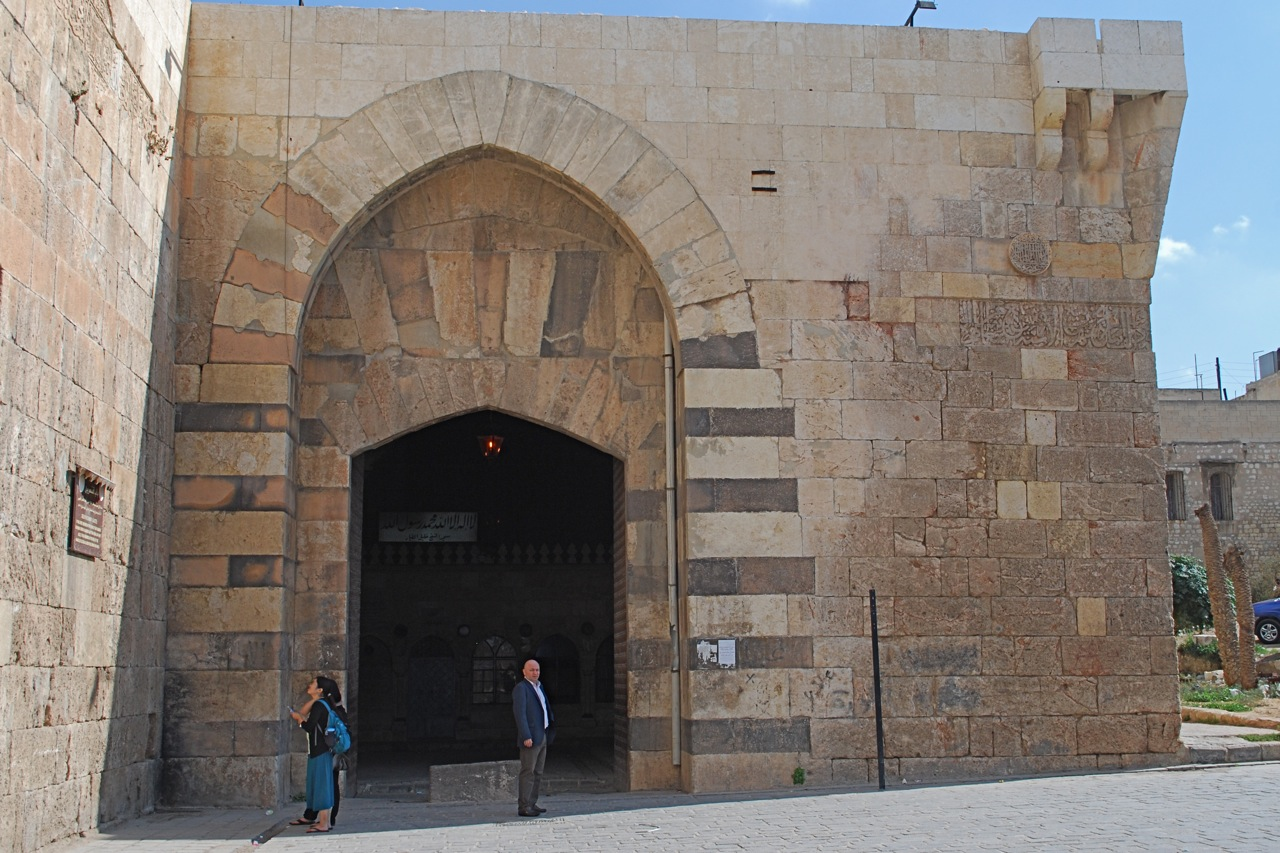 Aleppo, Gate of Qinnasrine